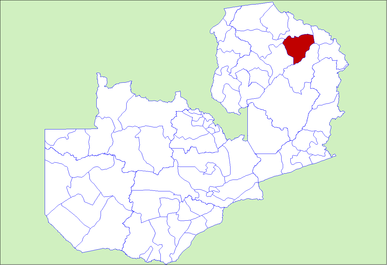 District locator in Zambia